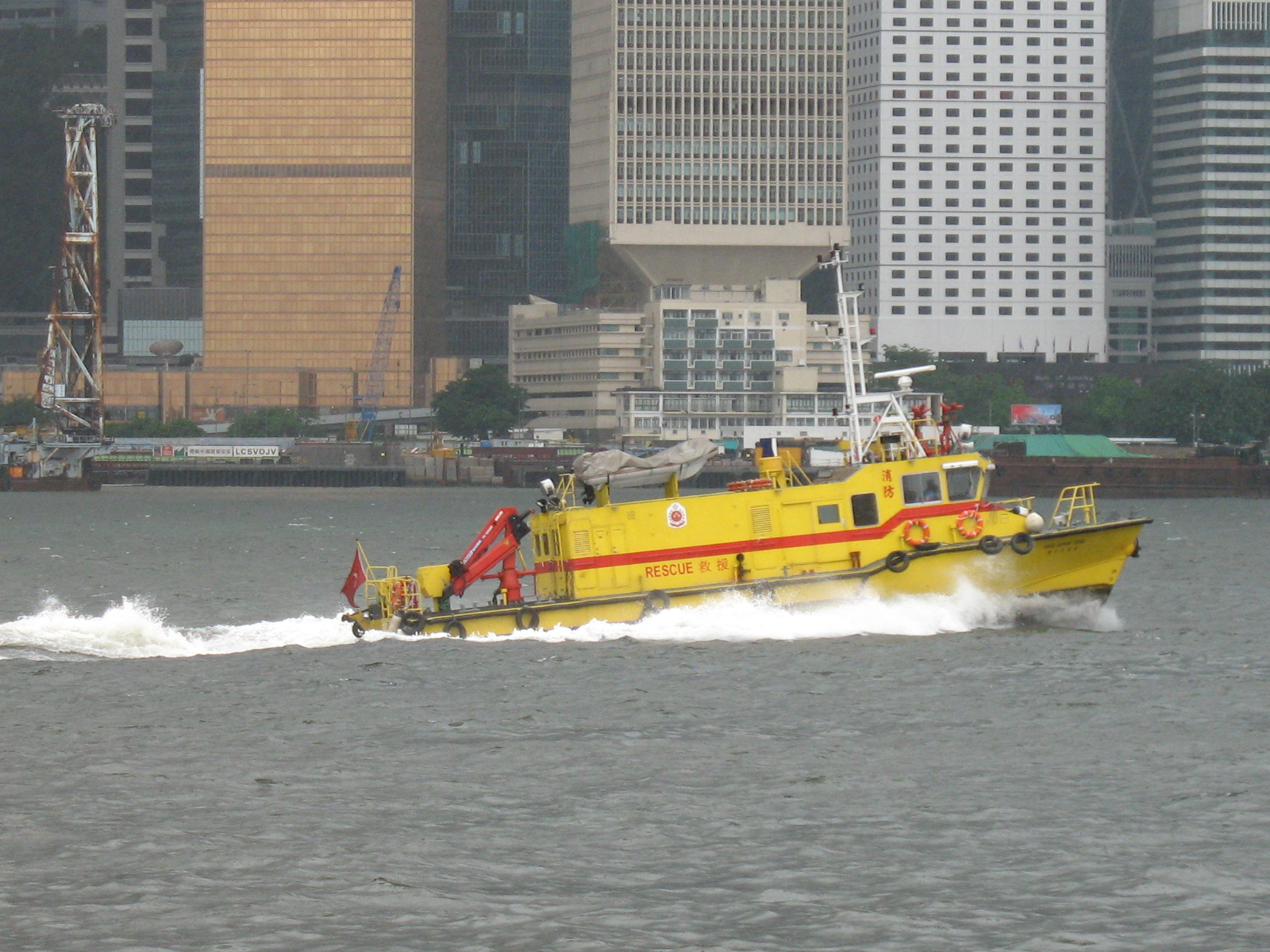 Diving Support Vessel for HKFSD 中文（香港）: 香港建造的消防處潛水支援船，此乃香港唯一一艘有潛水拯救功能的船隻，全船髹上鮮黃色加上紅色邊，服役於2002年。